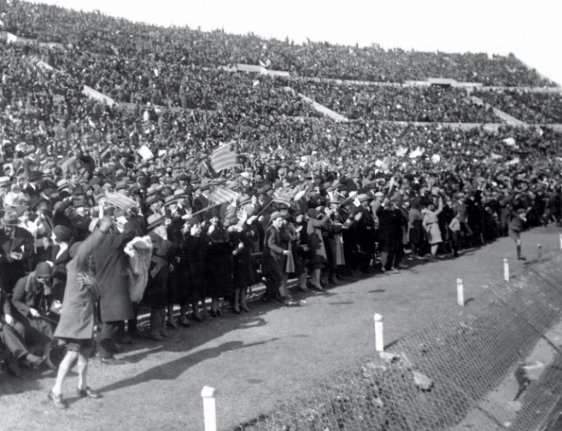 Uruguay supporters celebrating their first World Cup won.